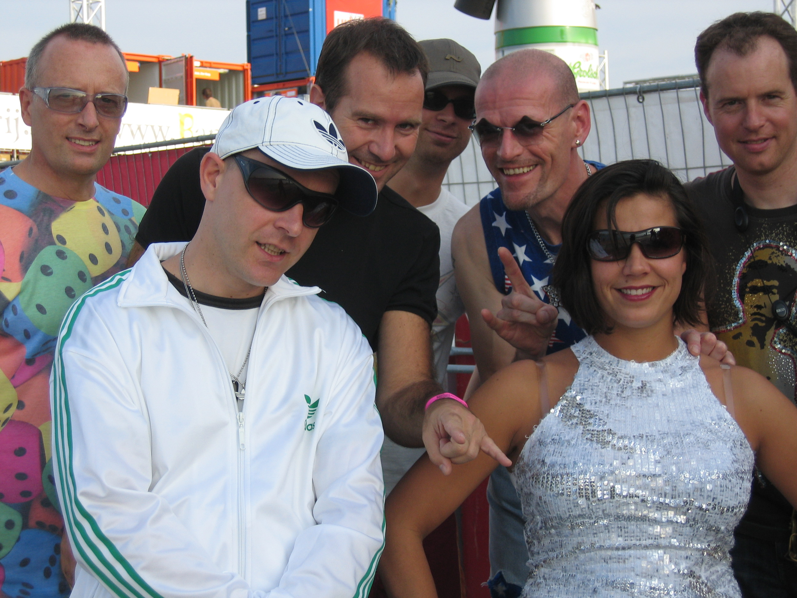 Seven Eleven the funkband